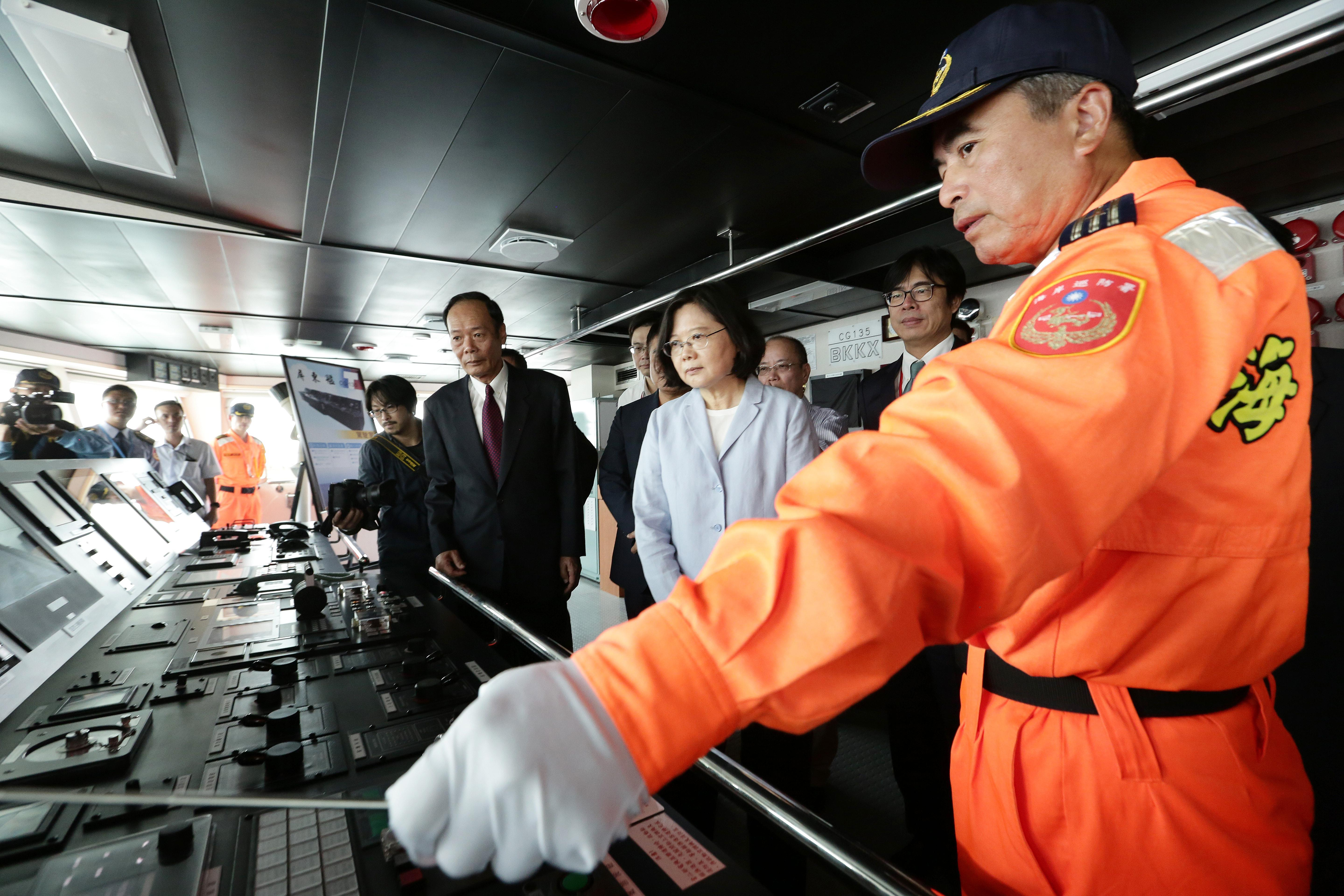 授權方式及範圍：中華民國總統府│政府網站資料開放宣告 Authorization Method & Scope: Office of the President, Republic of China (Taiwan) | Government Website Open Information Announcement